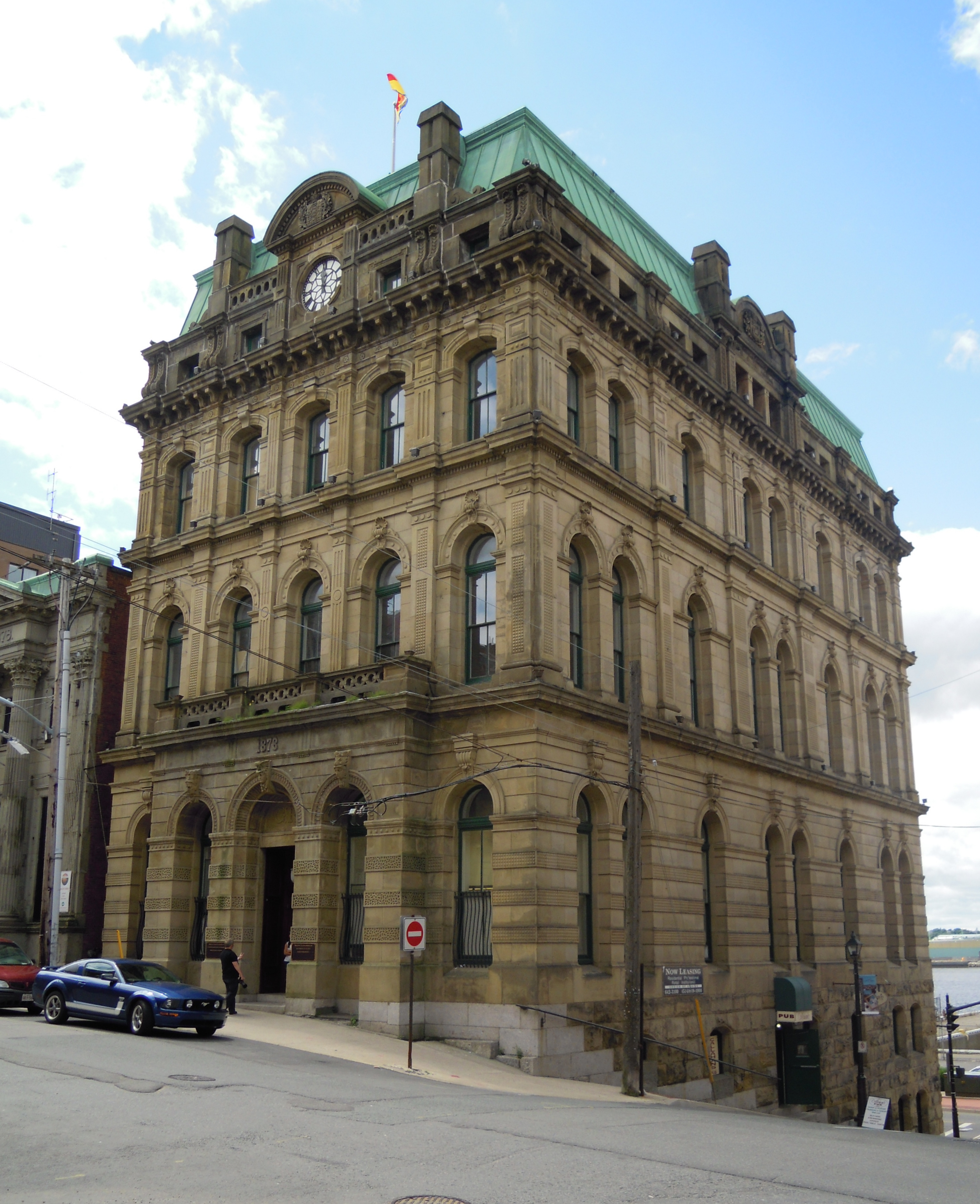 Old Post Office, Saint John, New Brunswick, Canada.